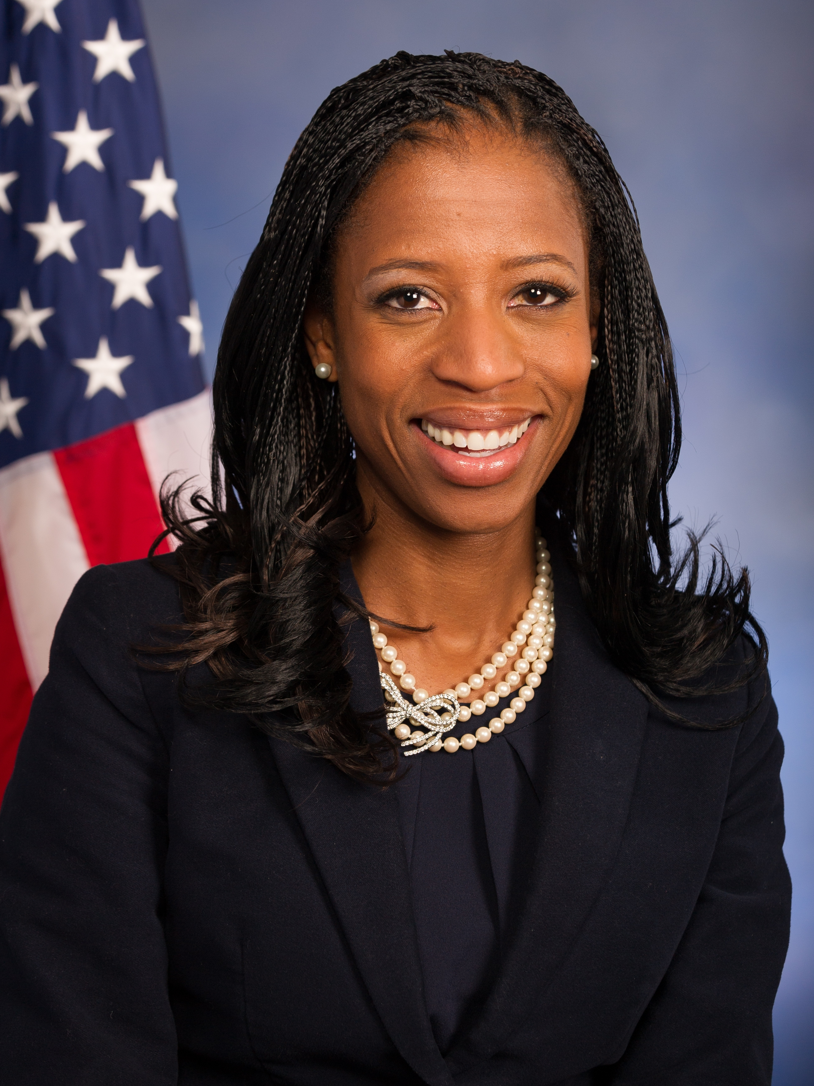 This is the Congressional Portrait of Rep. Mia Love